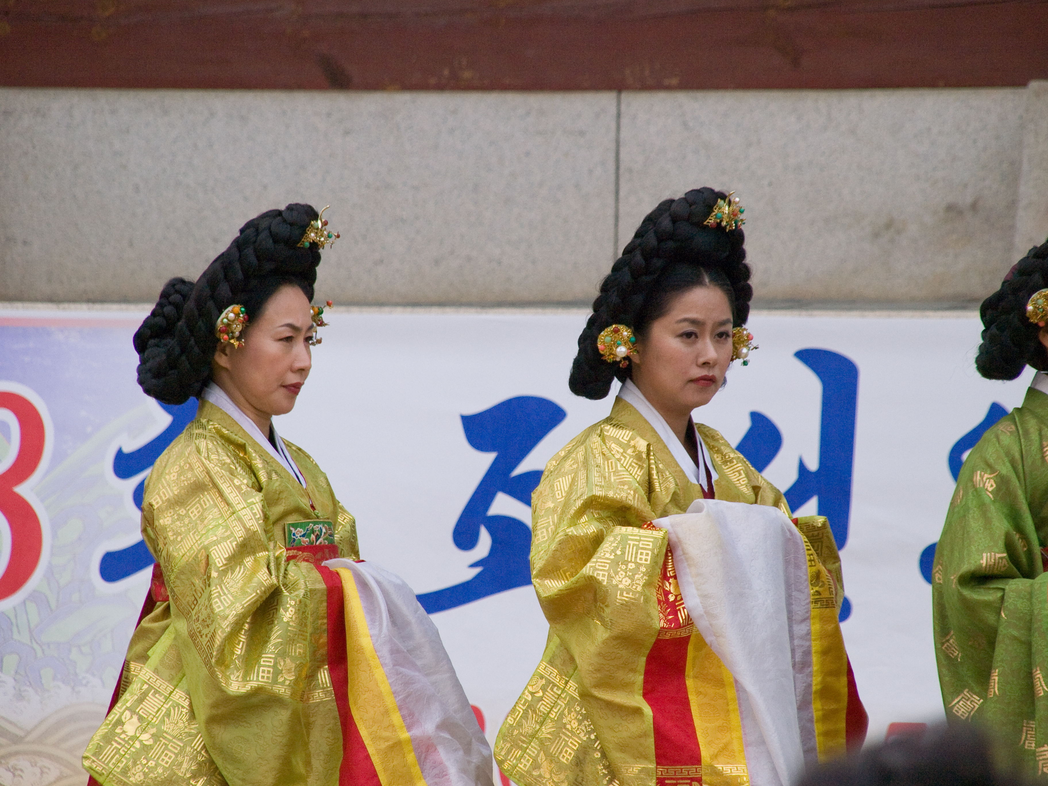 The 8th Chinjamrye reconstruction festival of Joseon dynasty was held on Nov. 17 2007 at Gangryeongjeon, Gyeongbokgung (royal palace) located in Seoul, South Korea. Chinjamrye was a big royal court event during Joseon dynasty for queens to encourage silk production to people. Queens relegated the event and represented to raise silkworms along with all well known ladies among royalty and nobility.